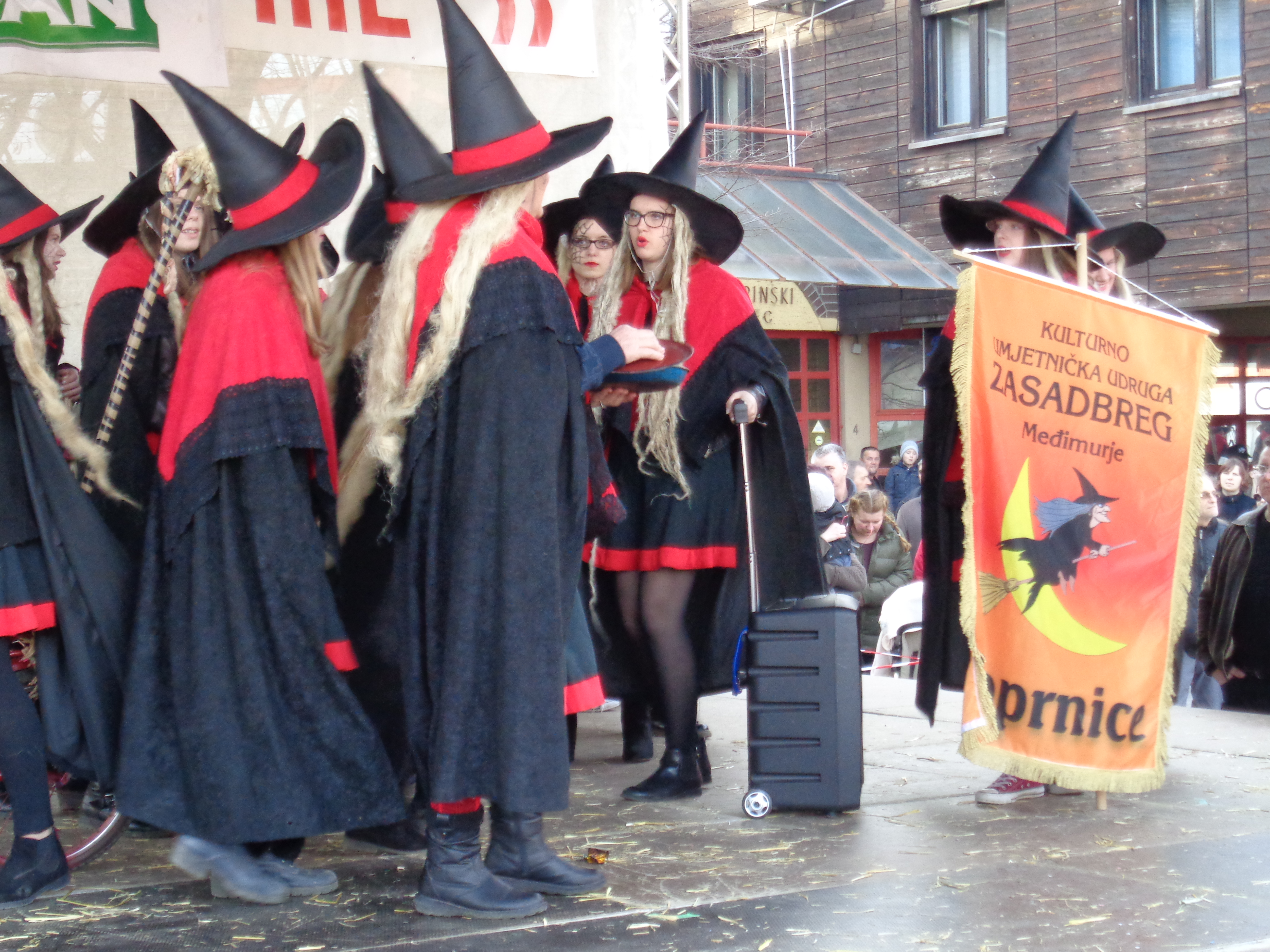 Medjimurje Carnival 2017 (Croatia) - "Coprnice" ("witches") from Zasadbreg village